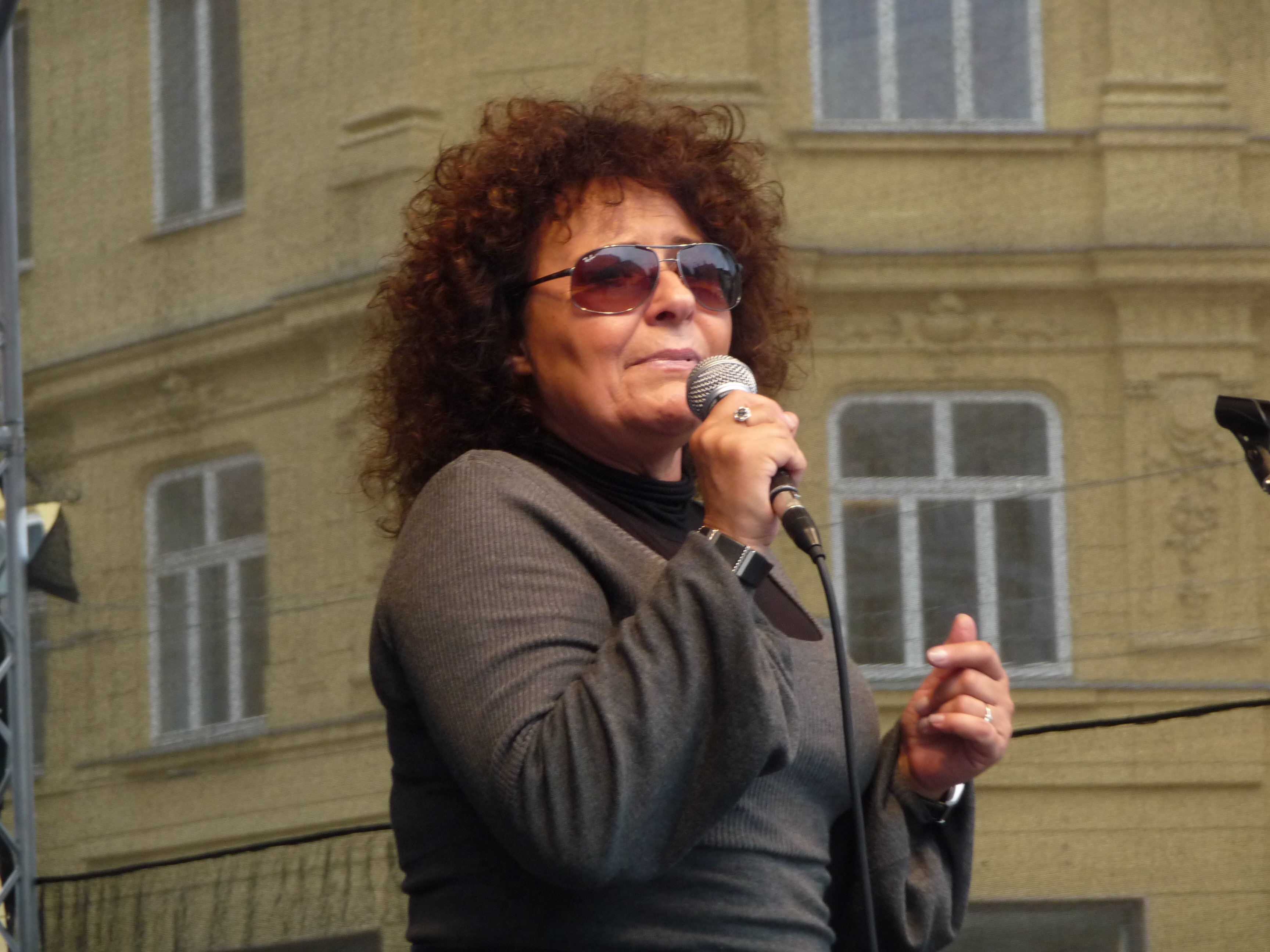 Jitka Zelenková, "Městečko řešení", Freedom square, Brno